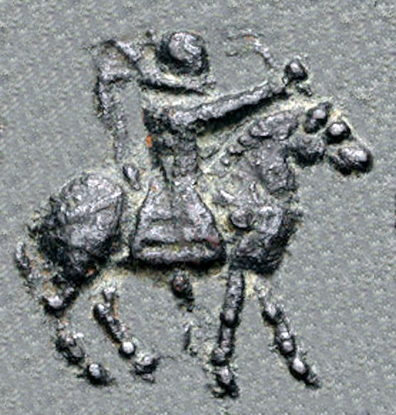 Vijayamitra king on horse